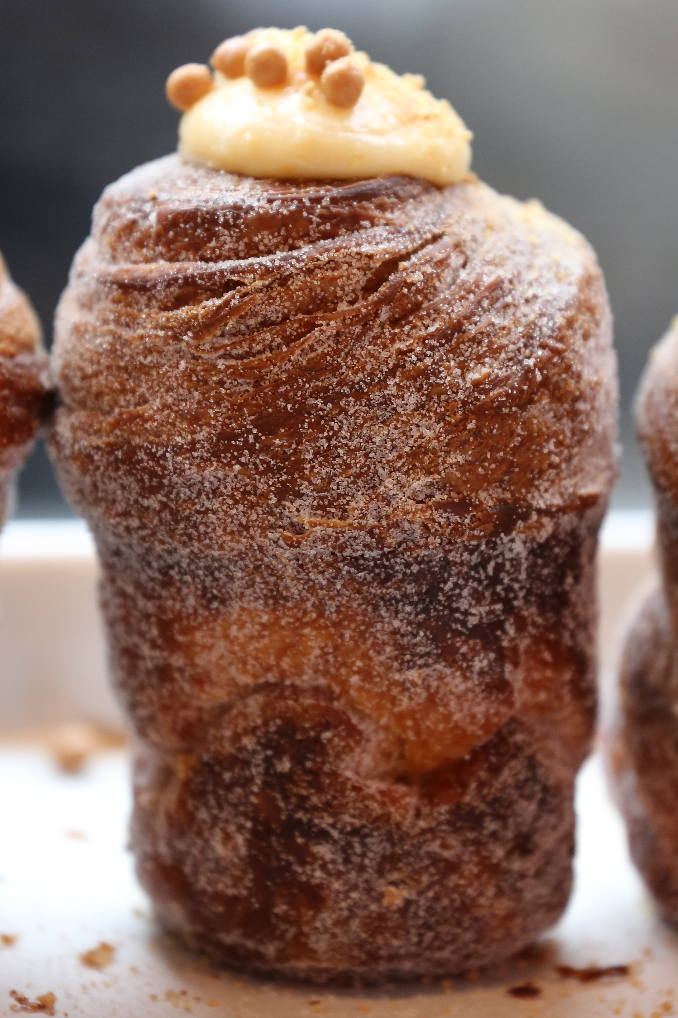 Mr. Holmes Bakehouse (Cruffins), 1042 Larkin St, San Francisco, CA 94109 Cruffins at Mr. Holmes Bakehouse (TK6)